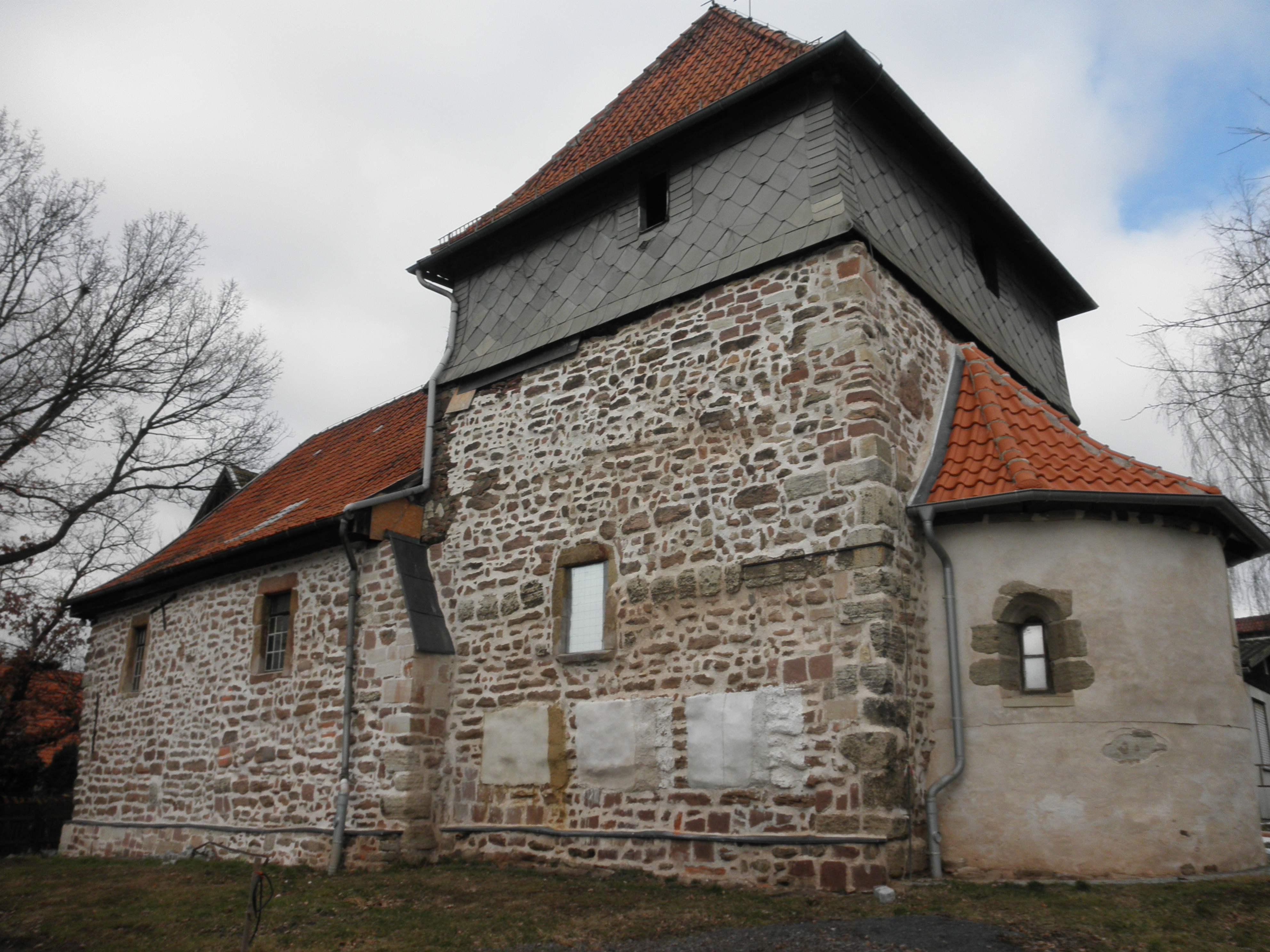 Church in Hain (Kleinfurra) in Thuringia